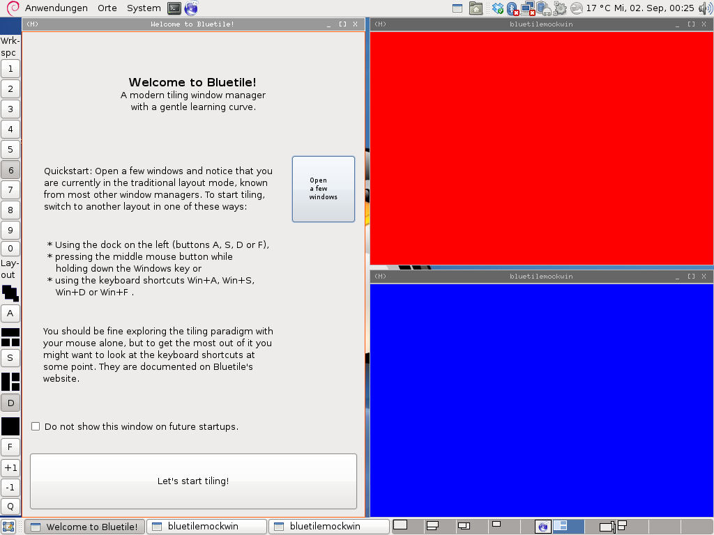 Screenshot of Bluetile (tiling window manager) in a tiled layout.